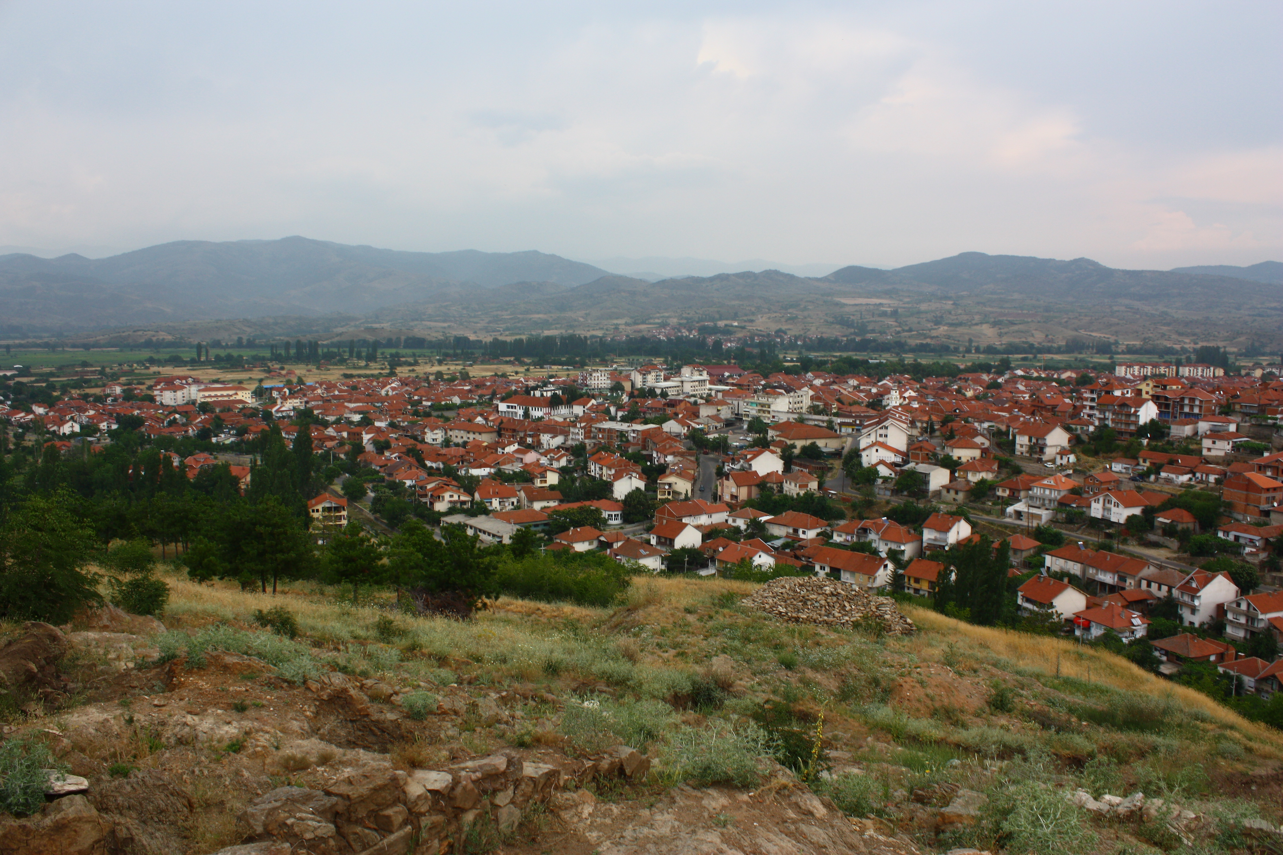 Vinica, Macedonia